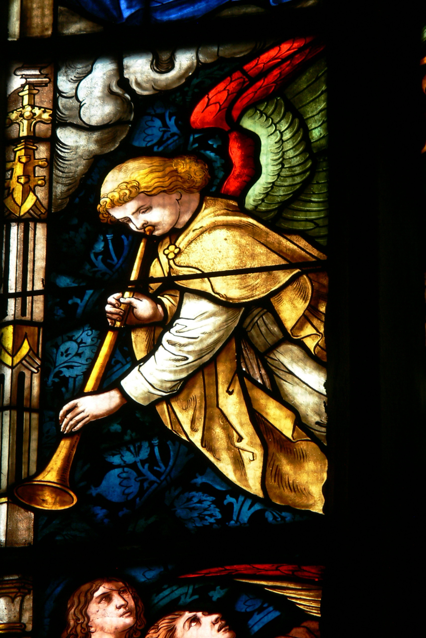 Langenzenn ( Bavaria ). City church - Gothic revival windows: Last Judgment window ( 19th century ) - detail: Tuba angel.